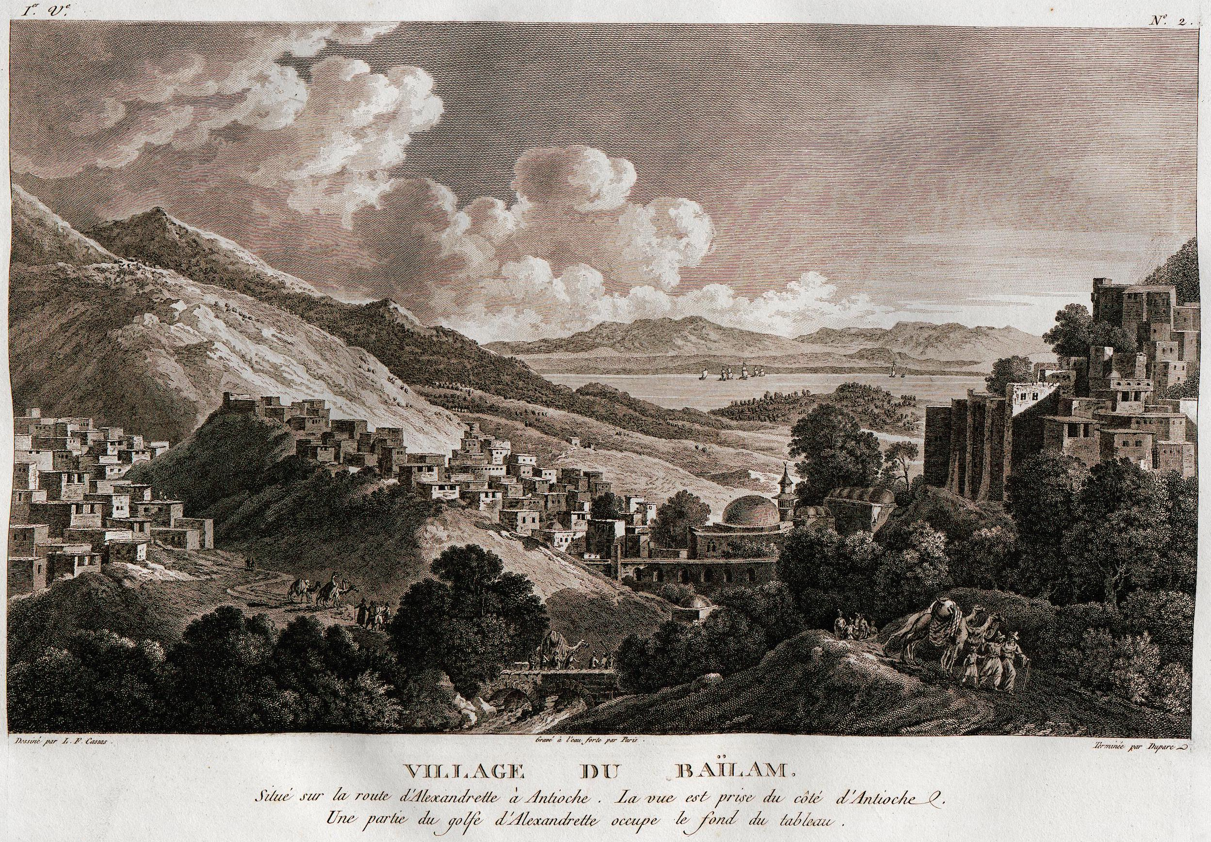 Louis-François Cassas From: Voyage pittoresque de la Syrie, de la Phoenicie, de la Palaestine et de la Basse Aegypte: ouvrage divisé en trois volumes contenant environ trois cent trente planches